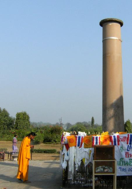 Buddhist practitioner paying tributes at a pillar from the Ashoka era, marking the place of birth of the Buddha (Prince Siddhārtha Gautama), at Lumbini, Nepal.